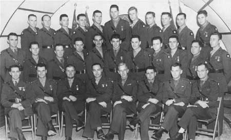 Officers of the 1st Battalion, 6th Marines, in Iceland, commanded by LtCol Oliver P. Smith (front row, fifth from left). He was to become assistant division commander of the 1st Marine Division on Cape Gloucester, division commander in the Korean War, and a four-star general at retirement. Two other officers of the battalion would become generals: Lt William K. Jones (second row, extreme right) and Lt Michael P. Ryan (last row, third from right). Three battalion officers were killed in the Pacific in World War II. These were the "Old Breed" with whom the Corps went to war.